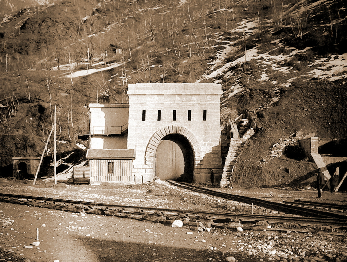 Simplon tunnel